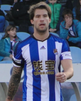 Inigo Martinez playing for Real Sociedad in 2015